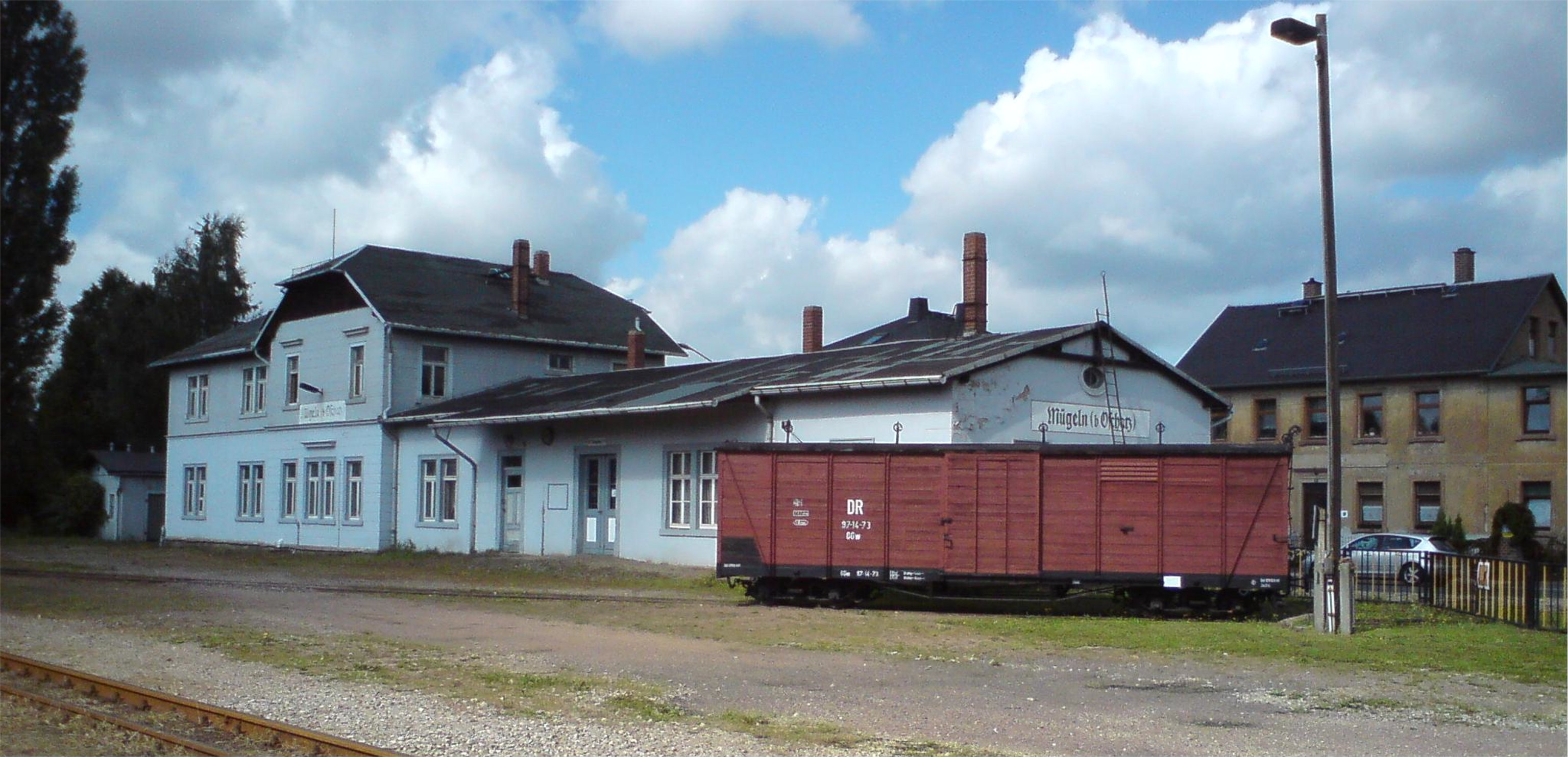 Train Station in Muegeln (Germany)